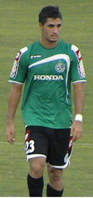 Maccabi Haifa and Isreal international midfielder Biram Kayal. Cropped from a photograph I took at a second round Israeli Premier League 2009 match, Hapoel Raanana - Maccabi Haifa, at the Levita stadium in Kfar Saba, Israel.